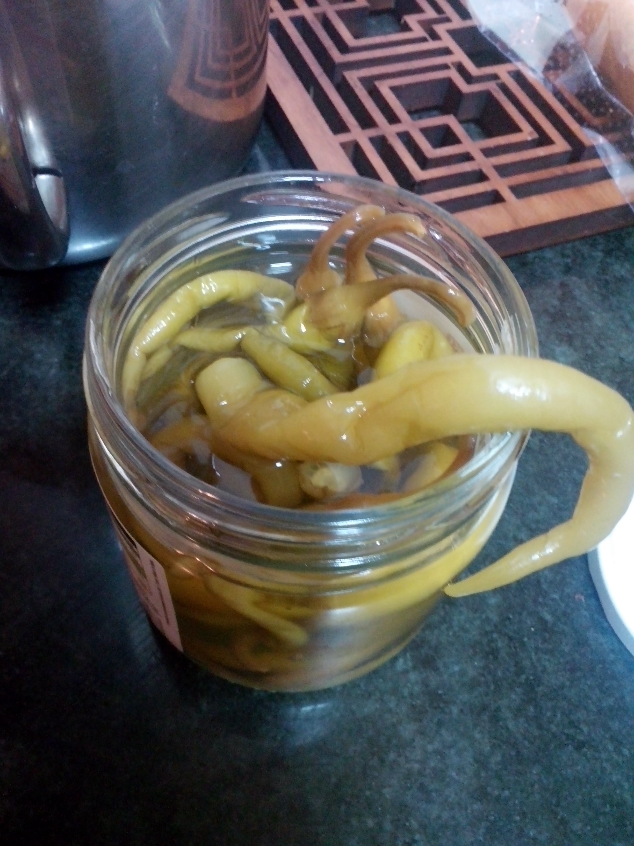 Green pepper or chilli green peppers